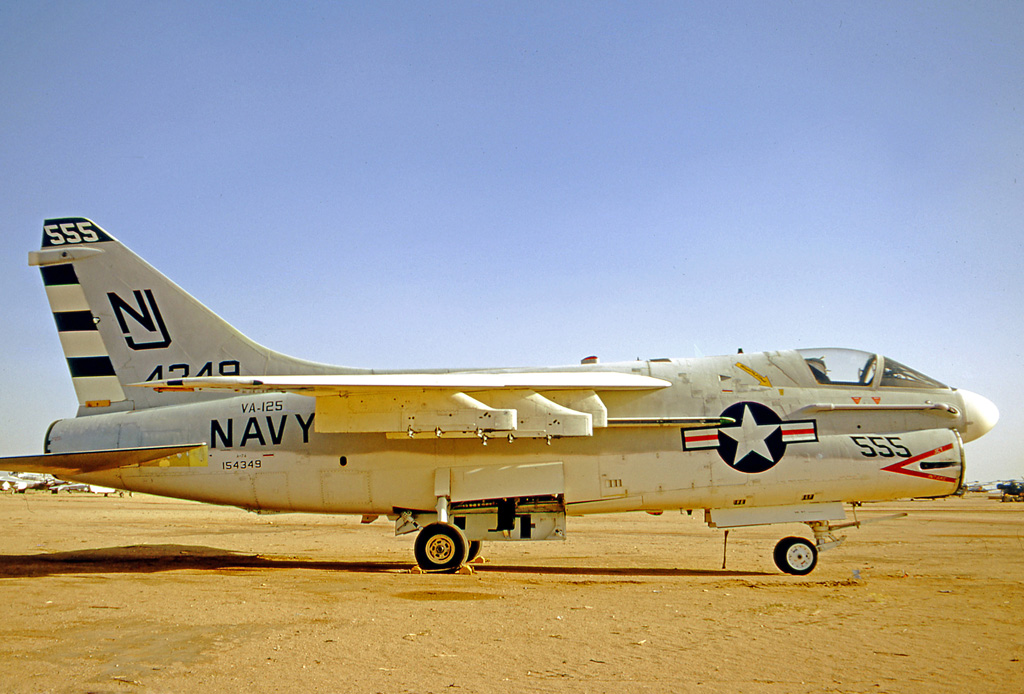 Vought A-7A Corsair II 154349 of VA-125 Squadron US Navy at Davis Monthan AFB in 1971